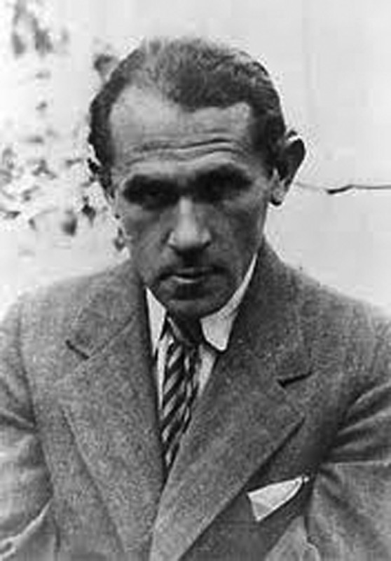 Polish writer, fine artist, literary critic and art teacher born to Jewish parents, and regarded as one of the great Polish-language prose stylists of the 20th century.